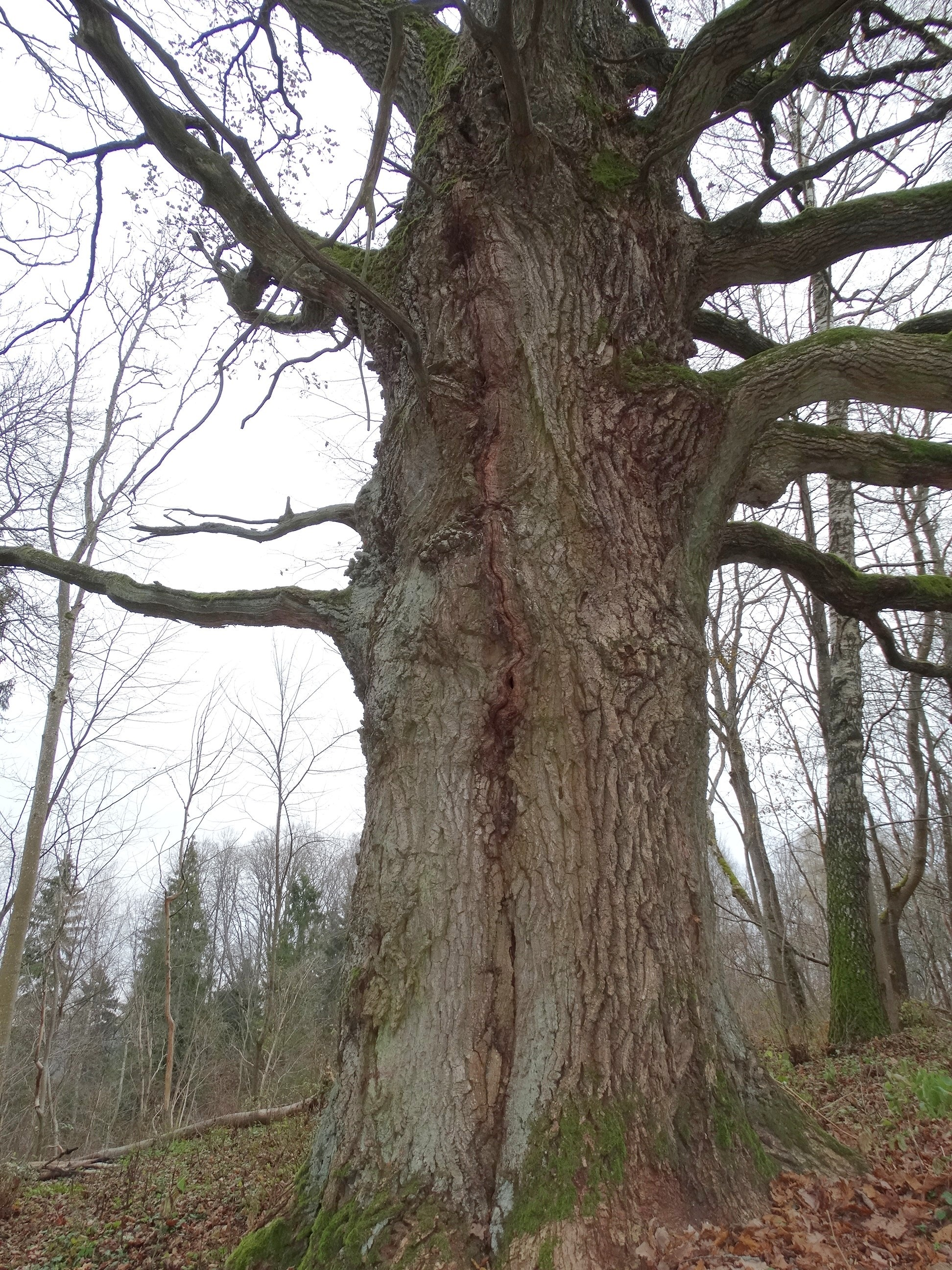 Alkų oak tree, Elektrėnai Municipality, Lithuania